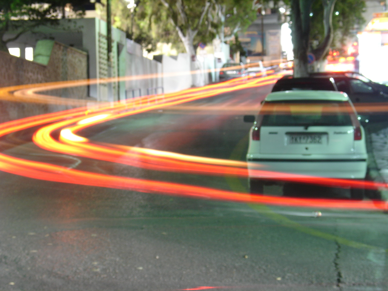 Slow (manual)) shutter speed 20 seconds